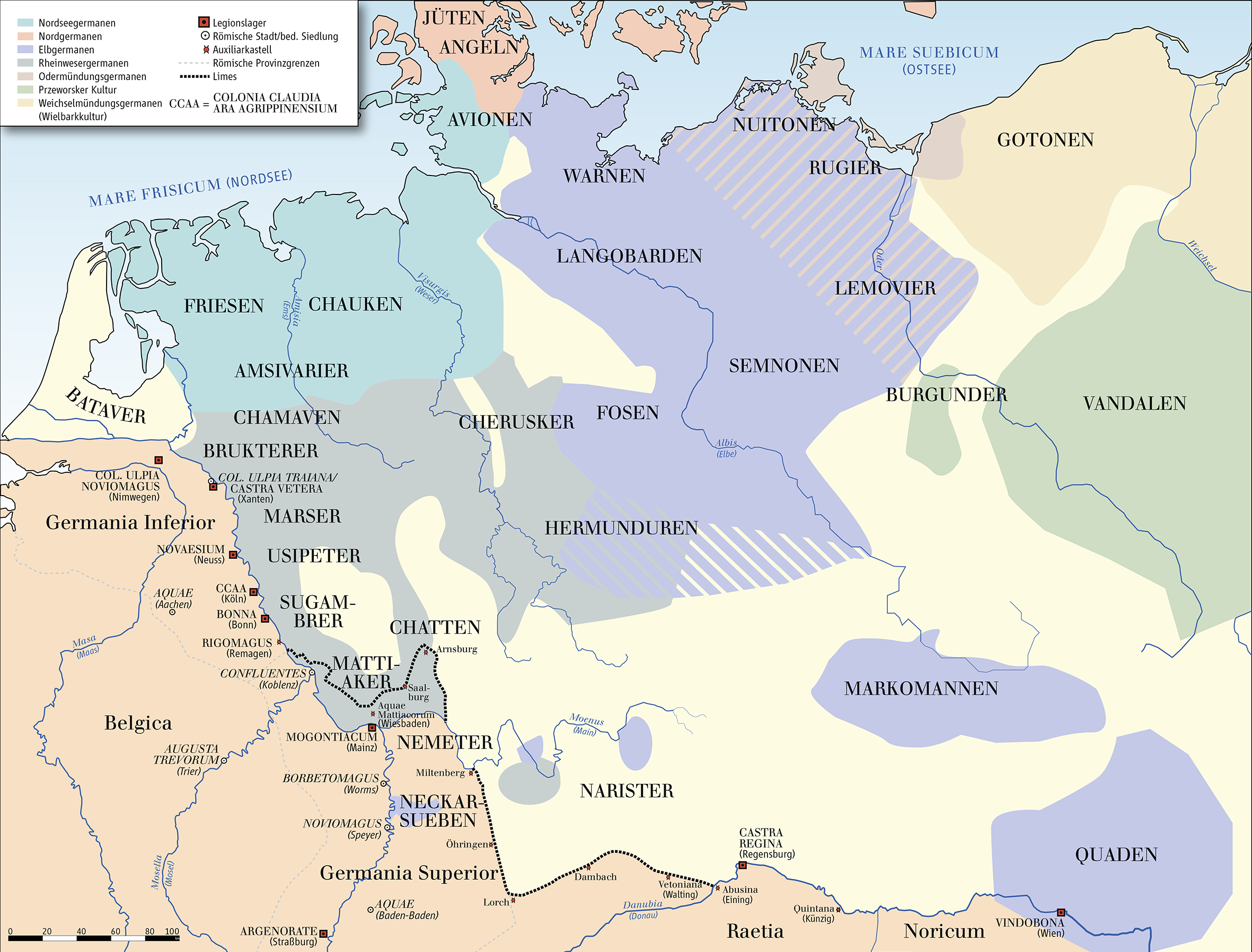 Map of german tribes, 50–100 AD